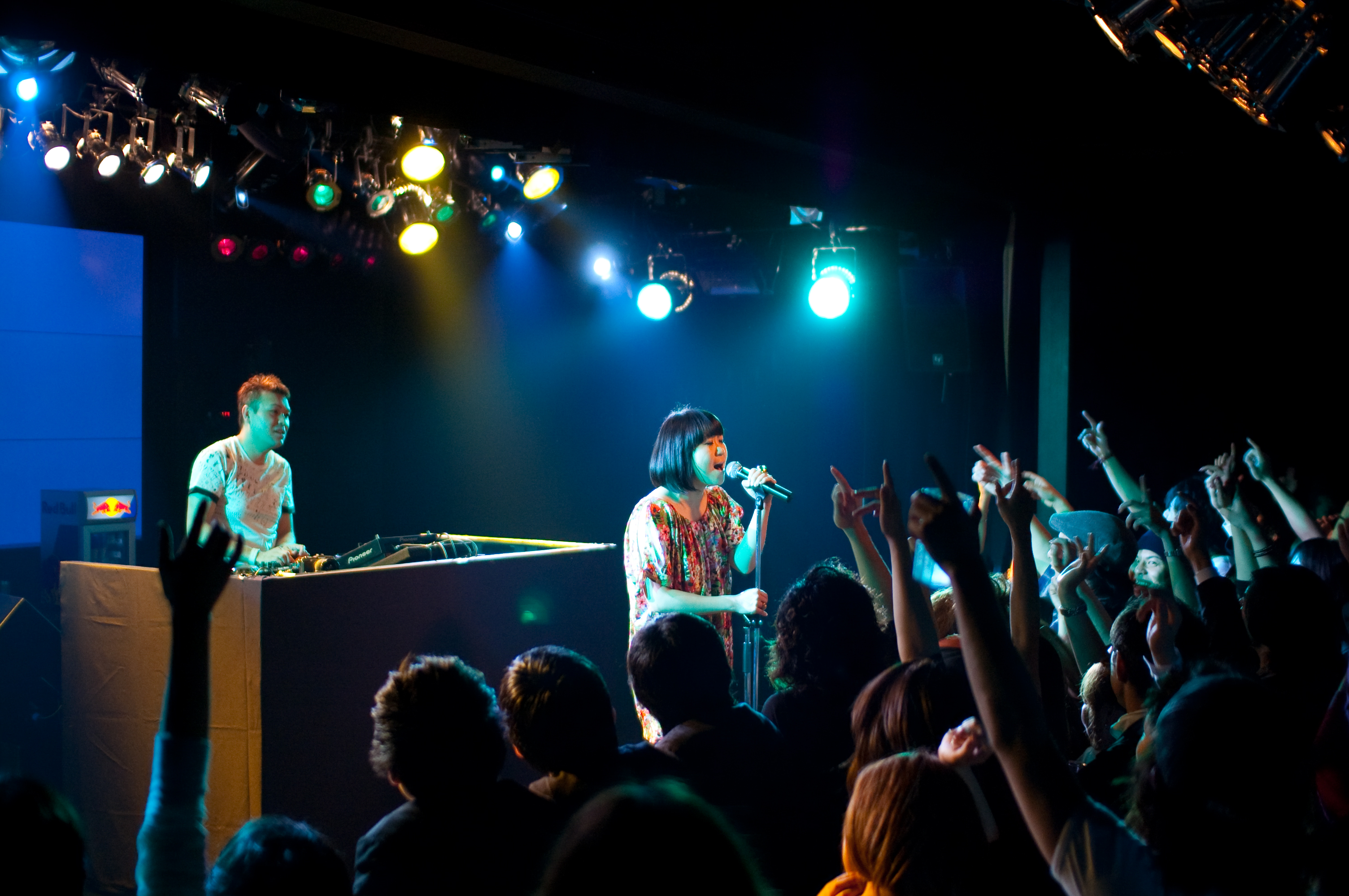 Guest Live: Mai(center, a daughter of Joe Hisaishi), DAISHI DANCE (left)